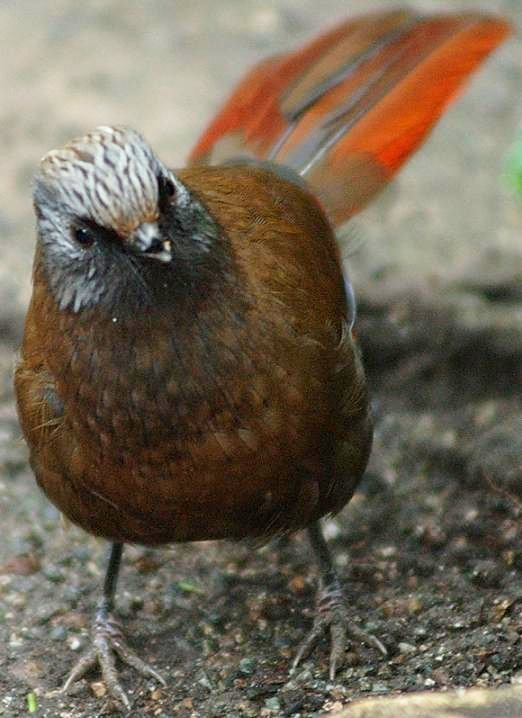 Red-winged Laughing Thrush